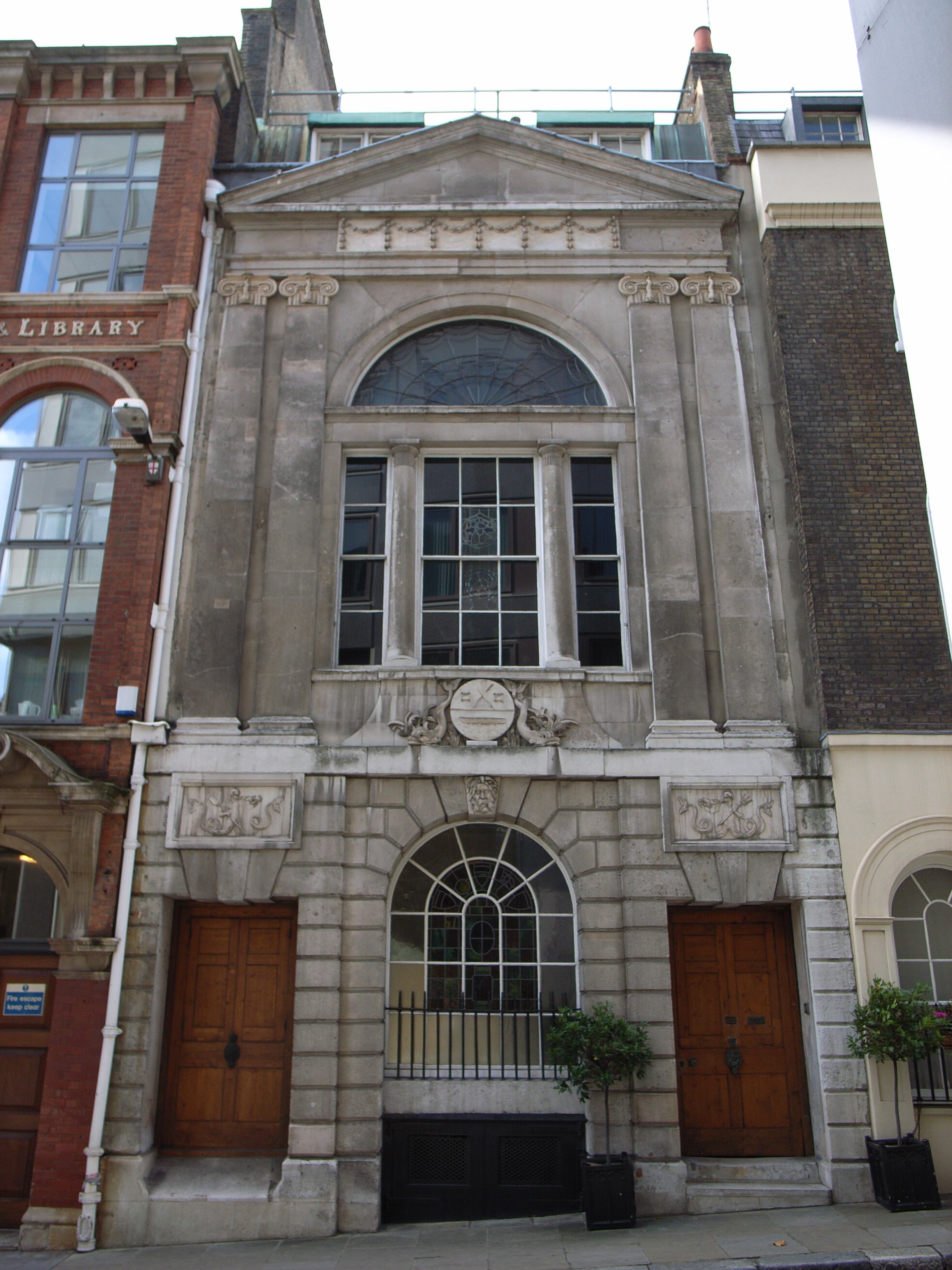 Image credited to:Steve Cadman Description:Watermen's Hall (1778-80), by William Blackburn. This was the headquarters of the Honourable Company of Watermen, originally the oarsmen of boat traffic on the river Thames.